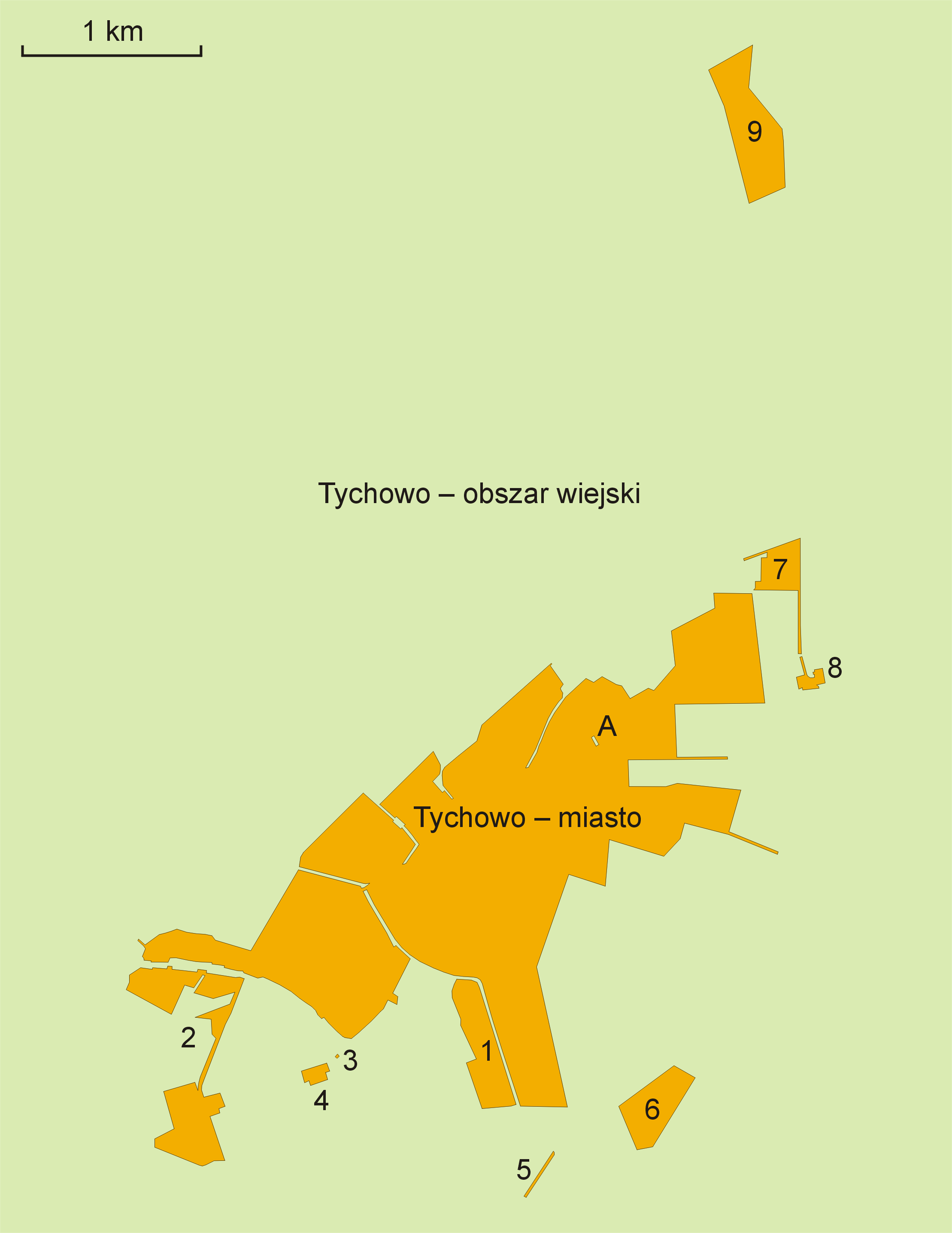 Administrative boundaries of Tychowo town. Town's exclaves are shown by numbers, enclave of village area is shown by A